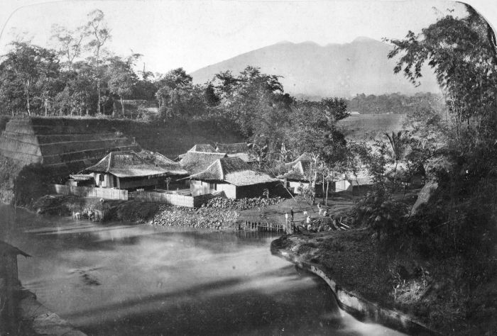 View over a village near Buitenzorg at the foot of the Salak volcano